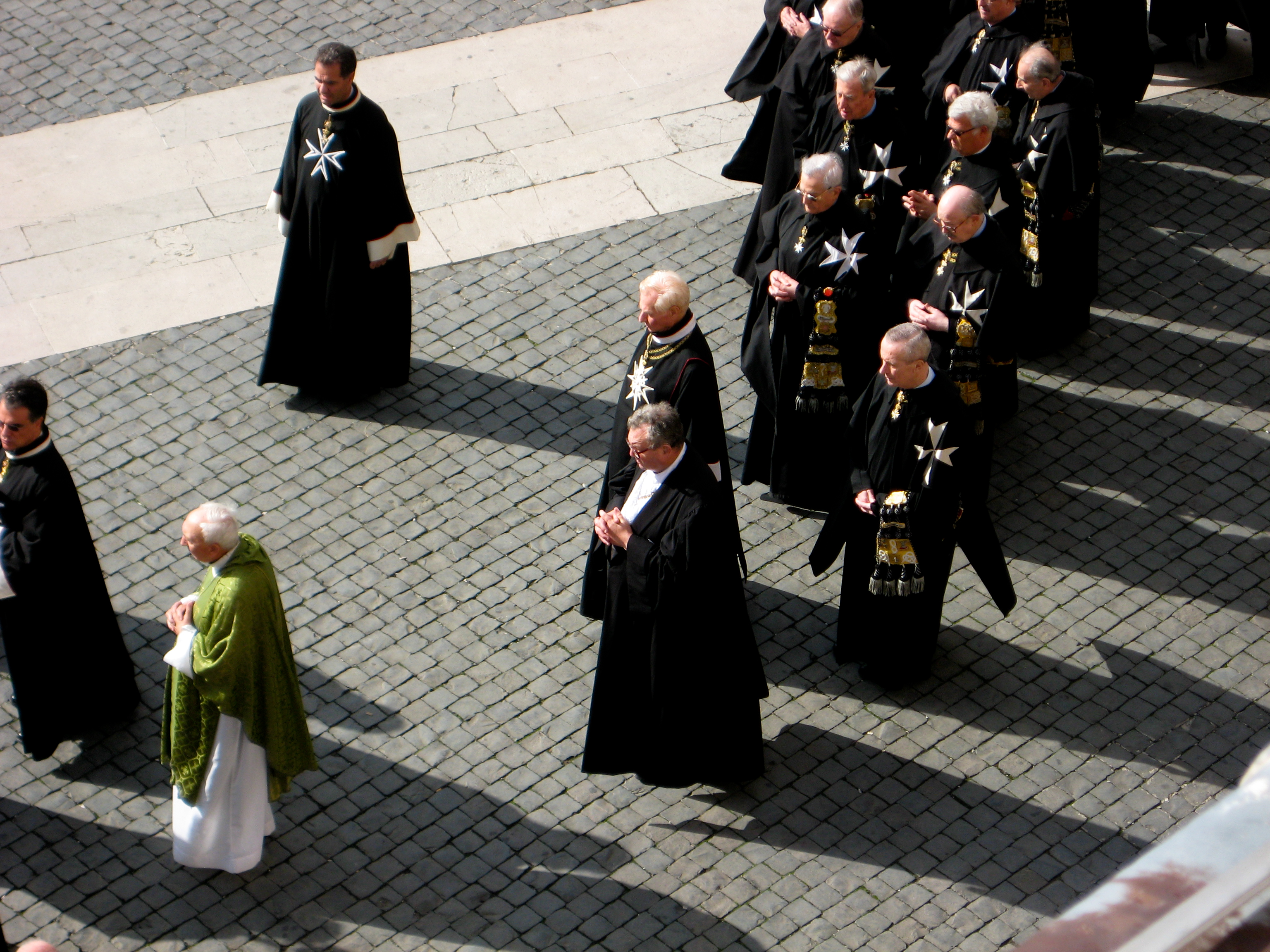 Pilgrimage to Loreto, Marche in 2009. The Prelate of the SMOM Archbishop Angelo Acerbi and the Grand Master Fra' Matthew Festing with knights.